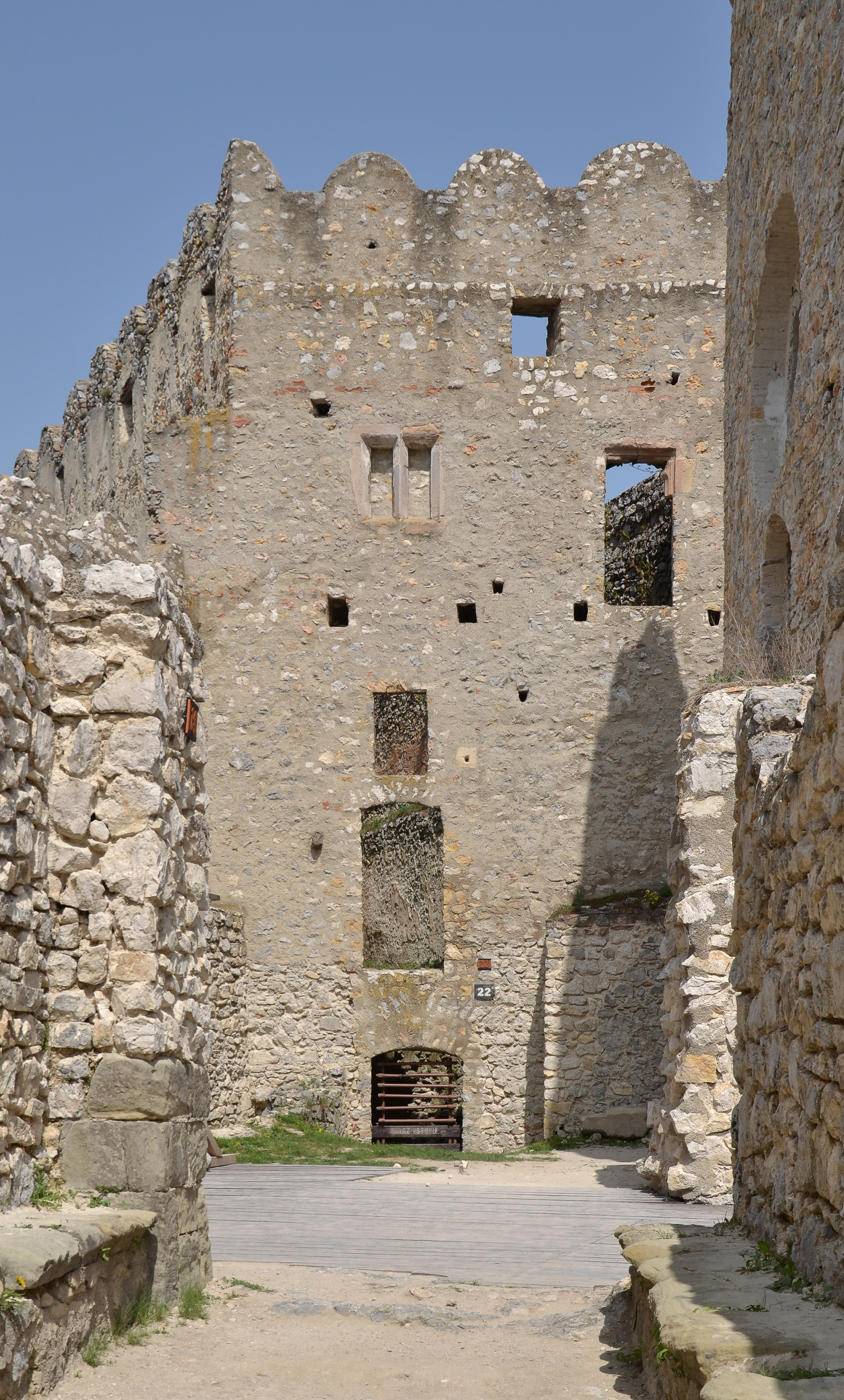 Beckov Castle - north palace